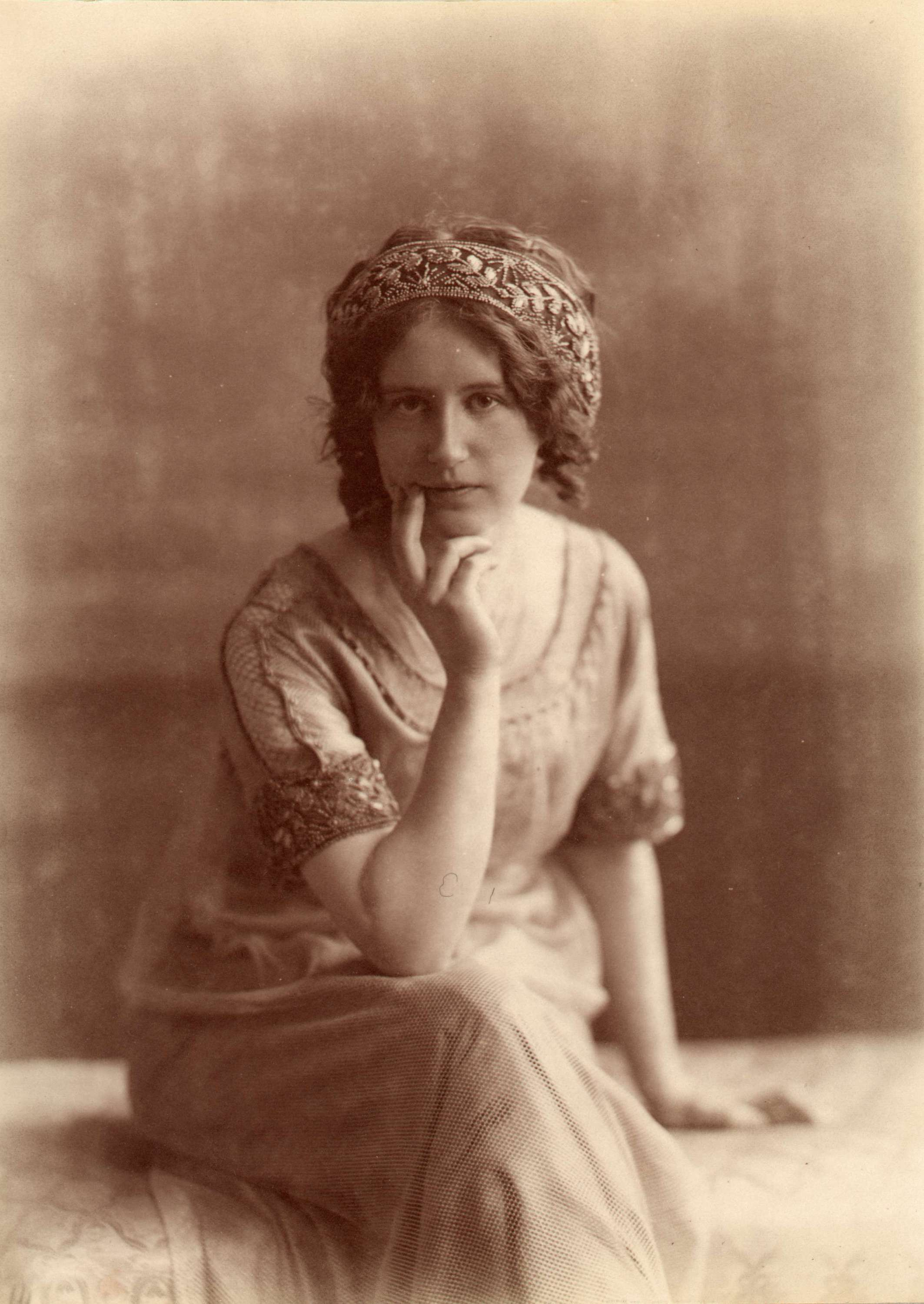 Aina Masolle (1885-1975), Swedish illustrator